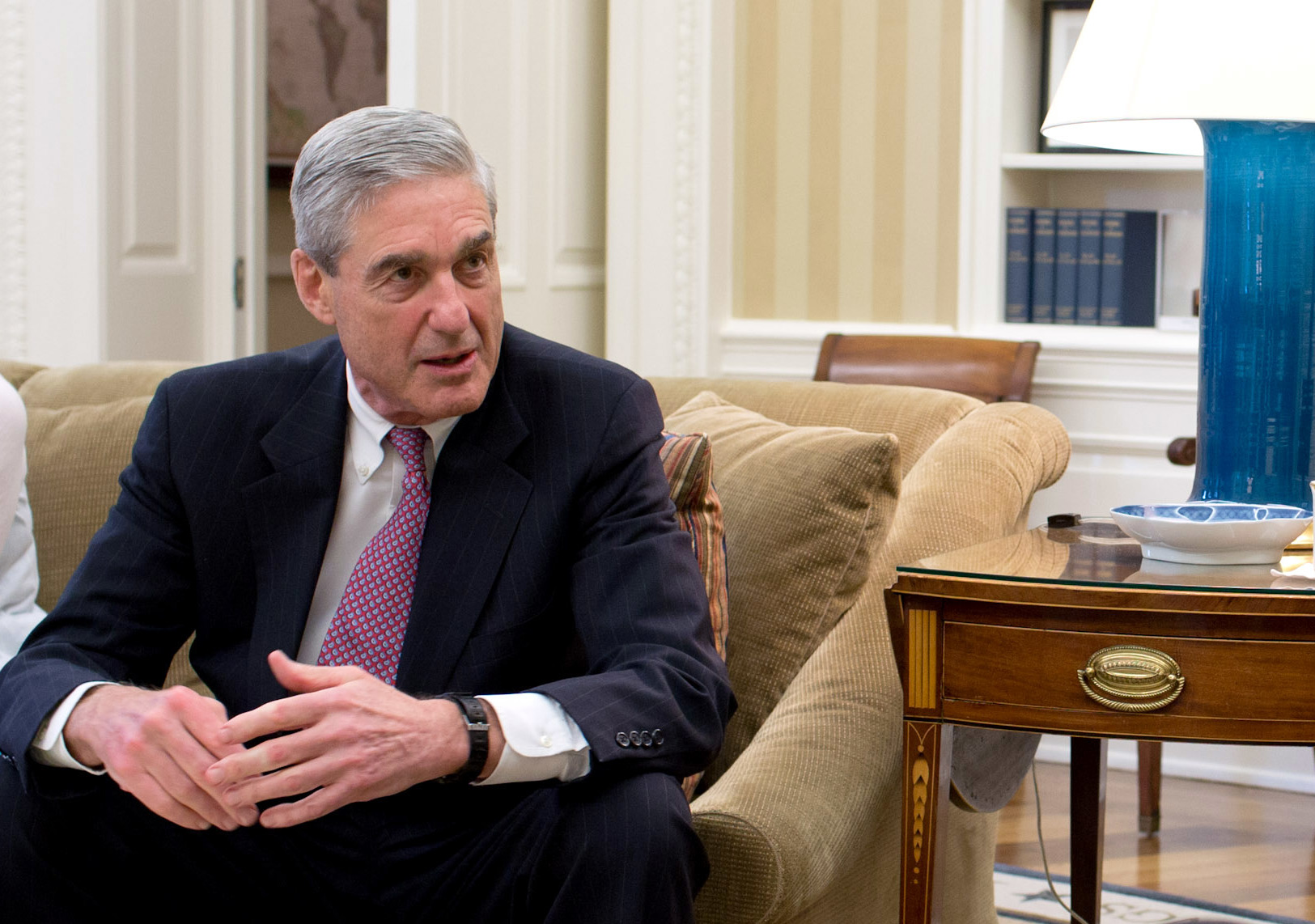 President Barack Obama and Vice President Joe Biden meet with senior advisors in the Oval Office to discuss the shootings in Aurora, Colorado, July 20, 2012. Pictured, from left, are: Kathryn Ruemmler, Counsel to the President, and FBI Director Robert Mueller. (Official White House Photo by Pete Souza)